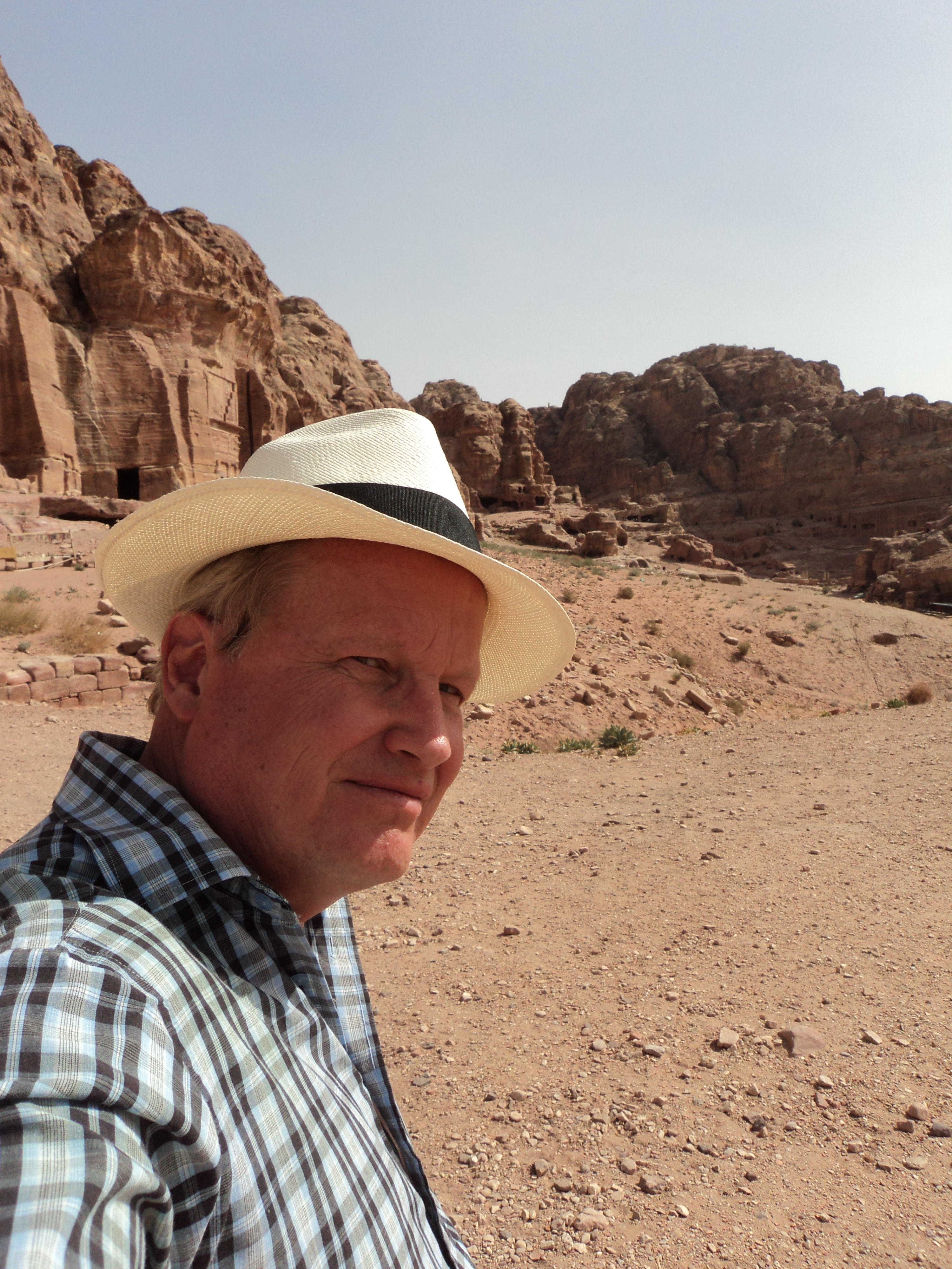 JanLundius in Petra, Jordania